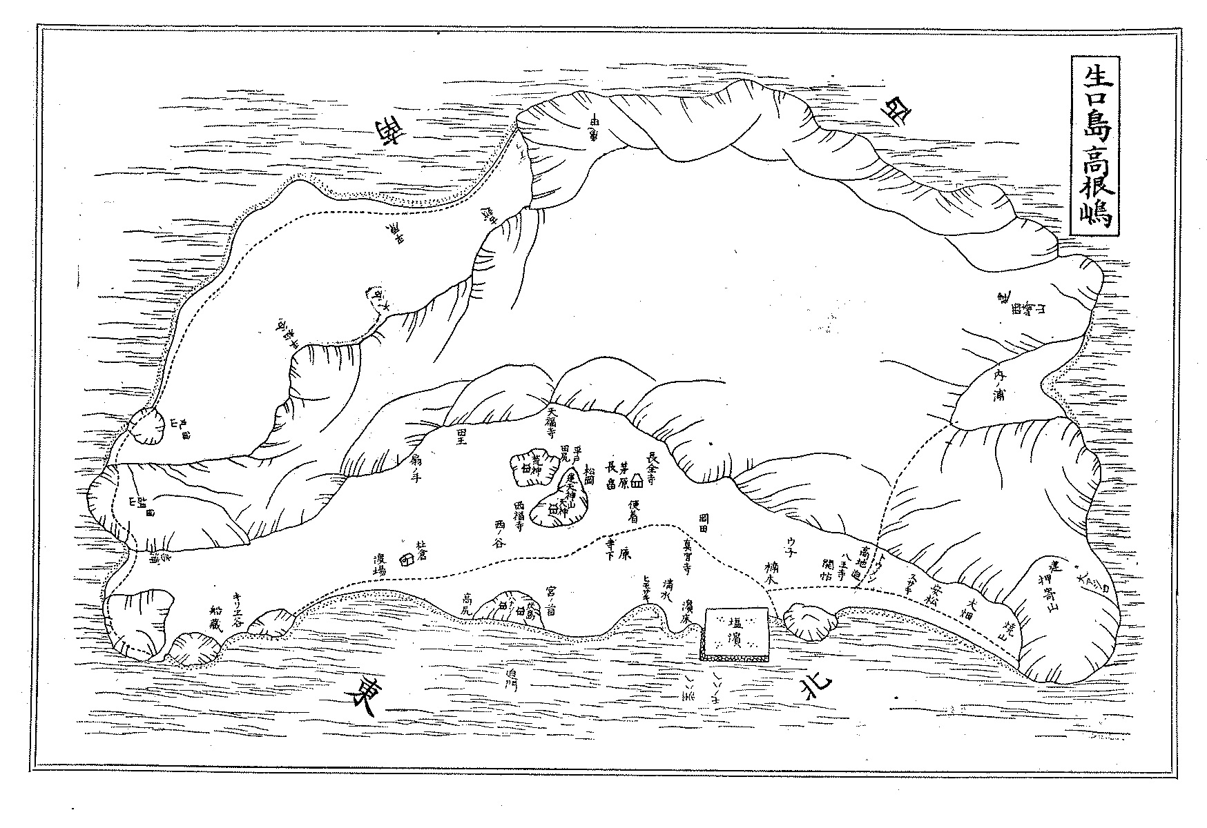 Oldmap of Ikuchijima Kouneshima, Toyodagun, Akikoku, Geihantsuushi